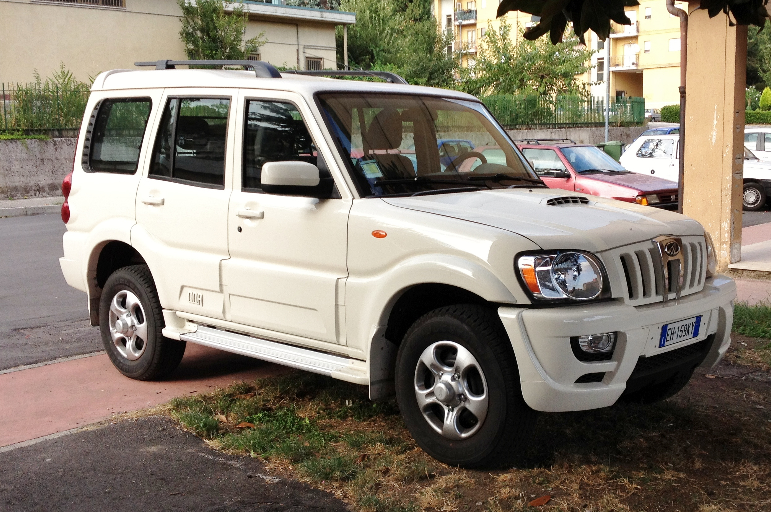 Mahindra Goa 5door in Avellino